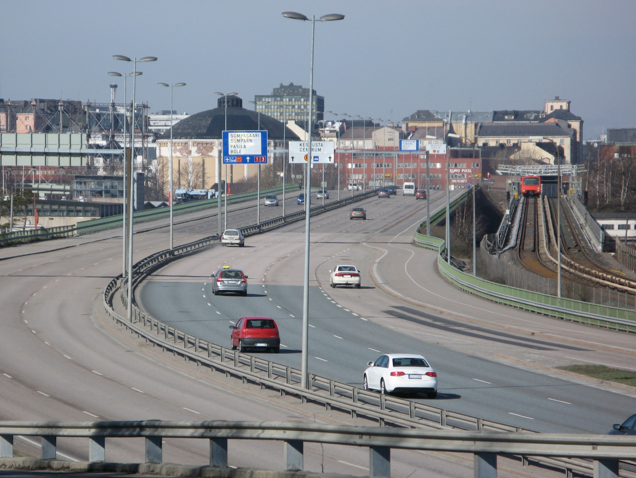 Bridge of Kulosaari in Helsinki, Finland